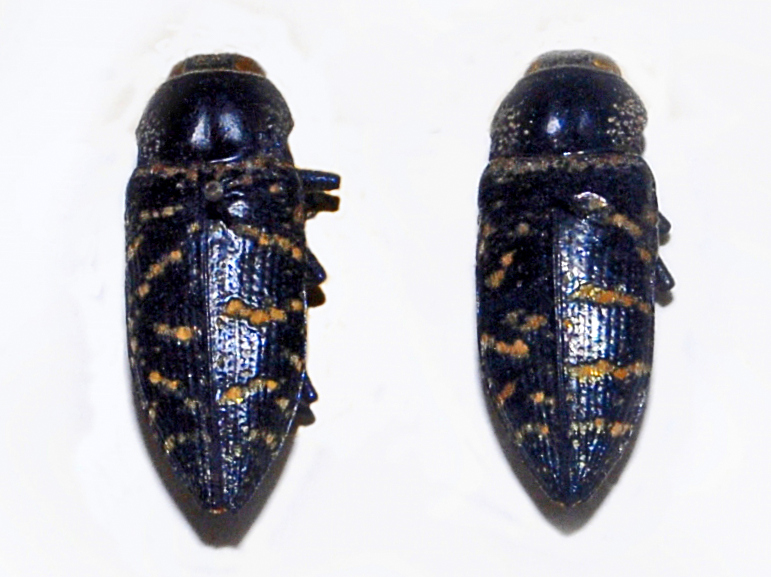 Lampetis dilaticollis. Mounted specimen. On display at the Civico Museo di Storia Naturale di Trieste